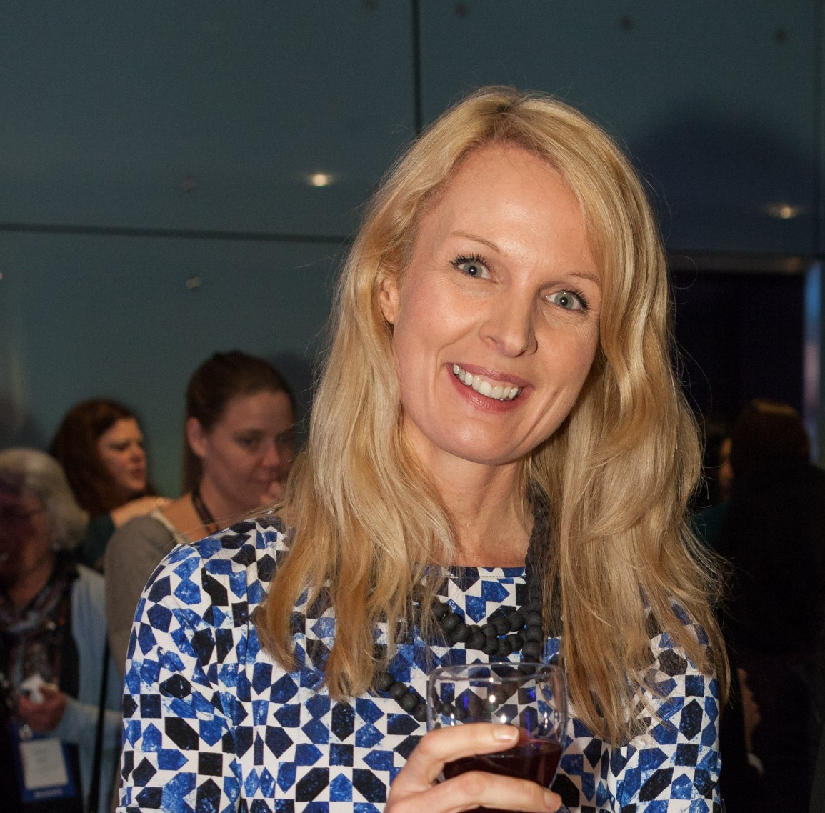 Wednesday 10th September 2014. Microsoft “Women in Business”, SkyCity Convention Centre, Auckland, New Zealand. Jacki Johnson (IAG) and Frances Valintine presents(The Mind Lab).